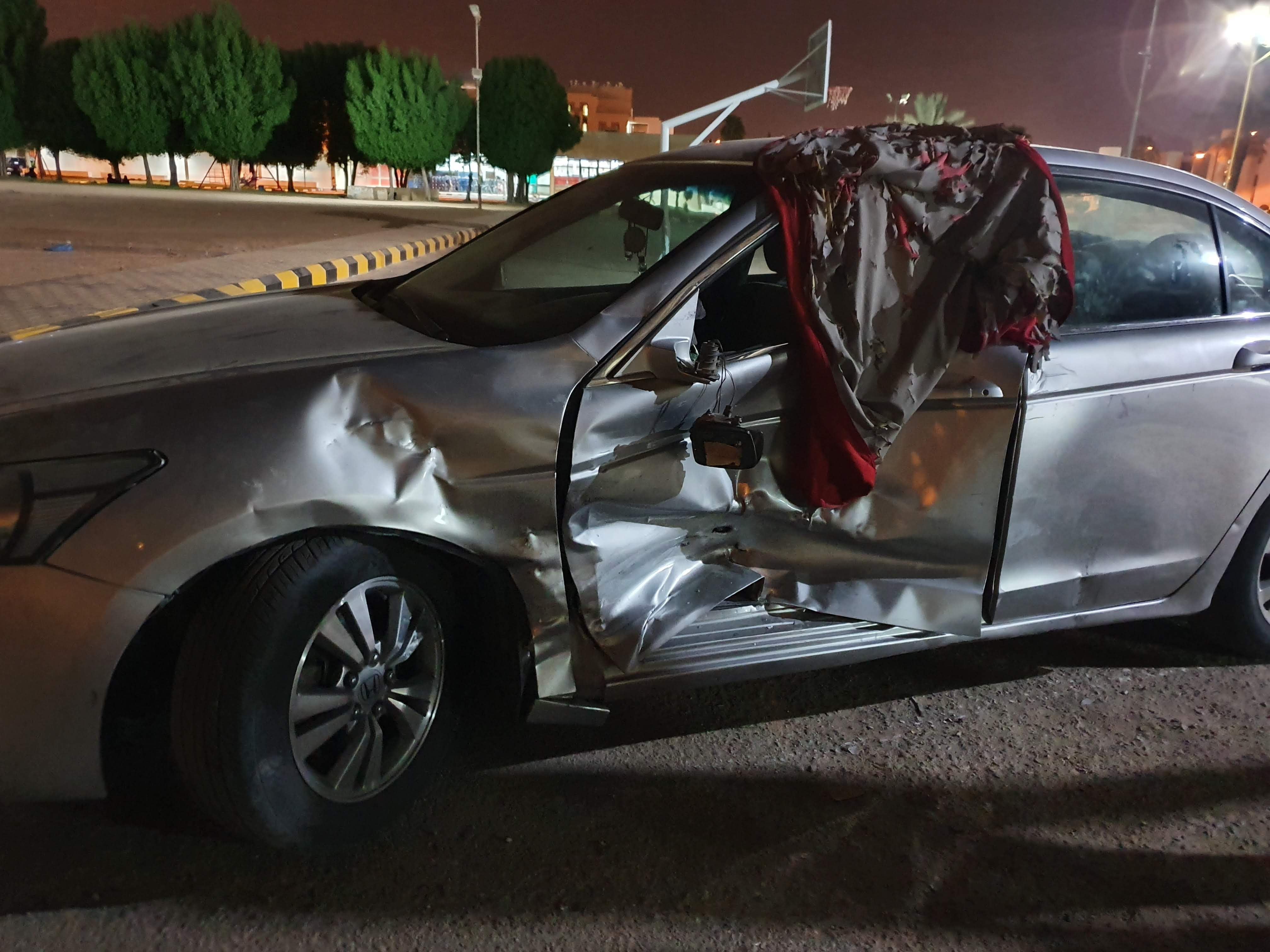 The picture shows the left side of the car completely destroyed. Another car had hit it with an impact thus causing the destruction.